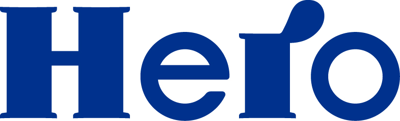 The logo of the Hero Group